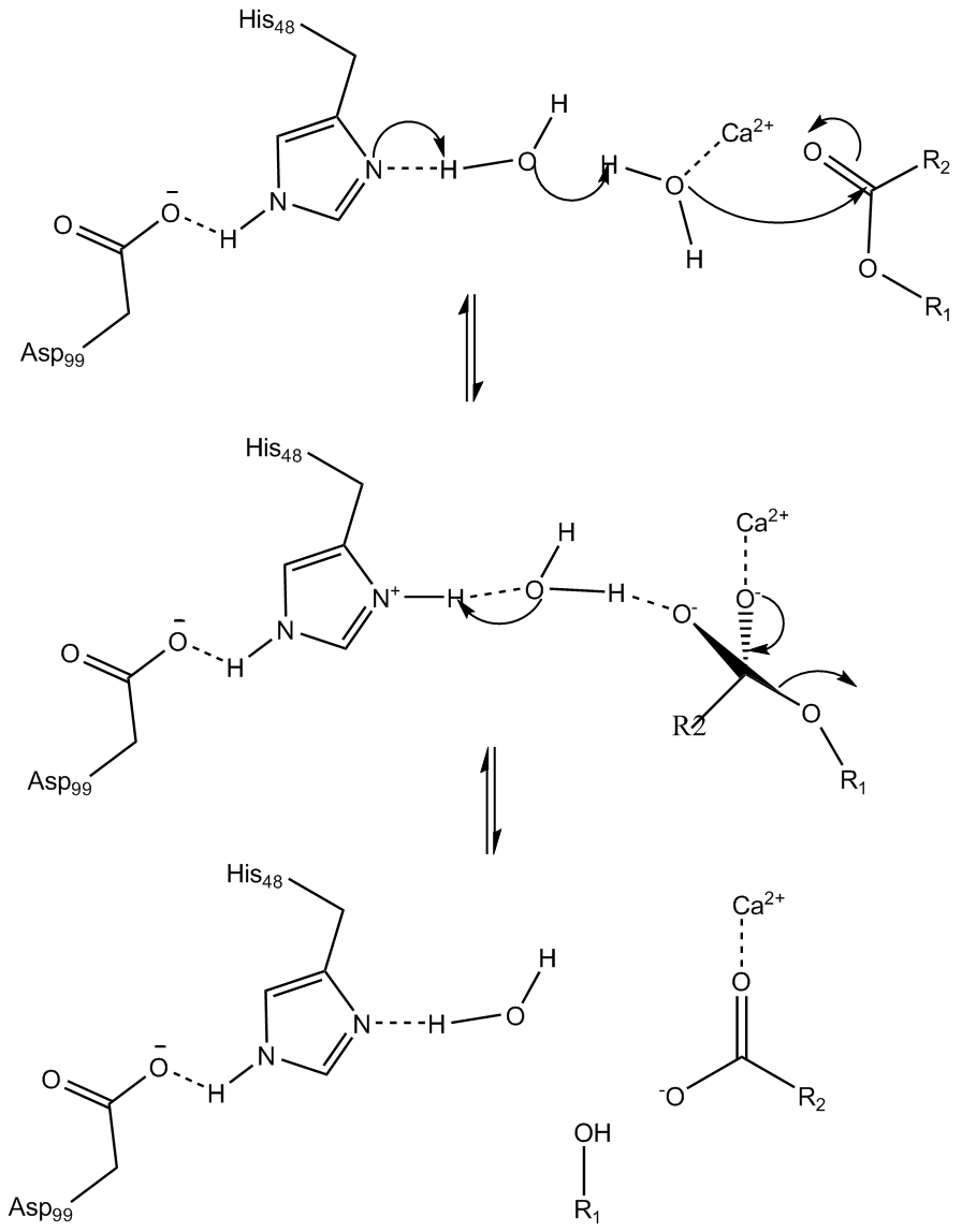 Mechanism PLA2